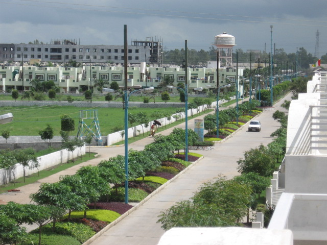 Nitin Sinha